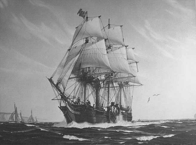 A painting of SS Savannah, 1819, by Hunter Wood